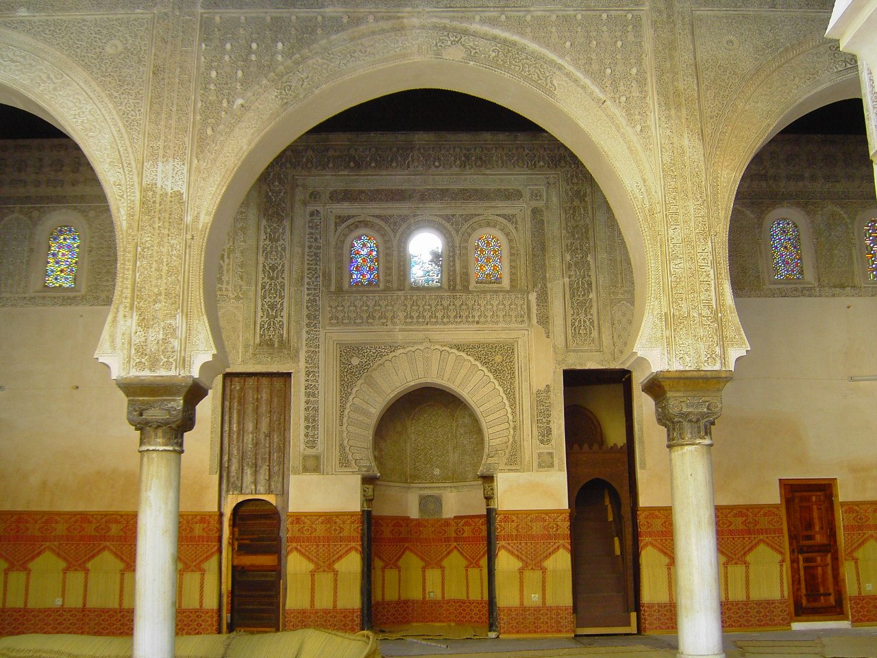 As all the pictures in my gallery, this is a FREE picture. You can download it and do whatever you want with it: share it, adapt it and/or combine it with other material and distribute the resulting works. I’d very much appreciate if you give photo credits to “Carlos ZGZ” when you use this picture. This would help me find it and add it to my photoset “Used elsewhere”. __ Como todas las imágenes de mi galería, esta es una imagen LIBRE. Puedes descargarla y hacer lo que quieras con ella: compartirla tal cual, modificarla y/o combinarla con otro material y distribuir el resultado. Por favor, si utilizas esta imagen, dale el crédito a “Carlos ZGZ”. De esta manera podré encontrarla fácilmente y añadirla a mi álbum “Used elsewhere”. __ This picture has been used here